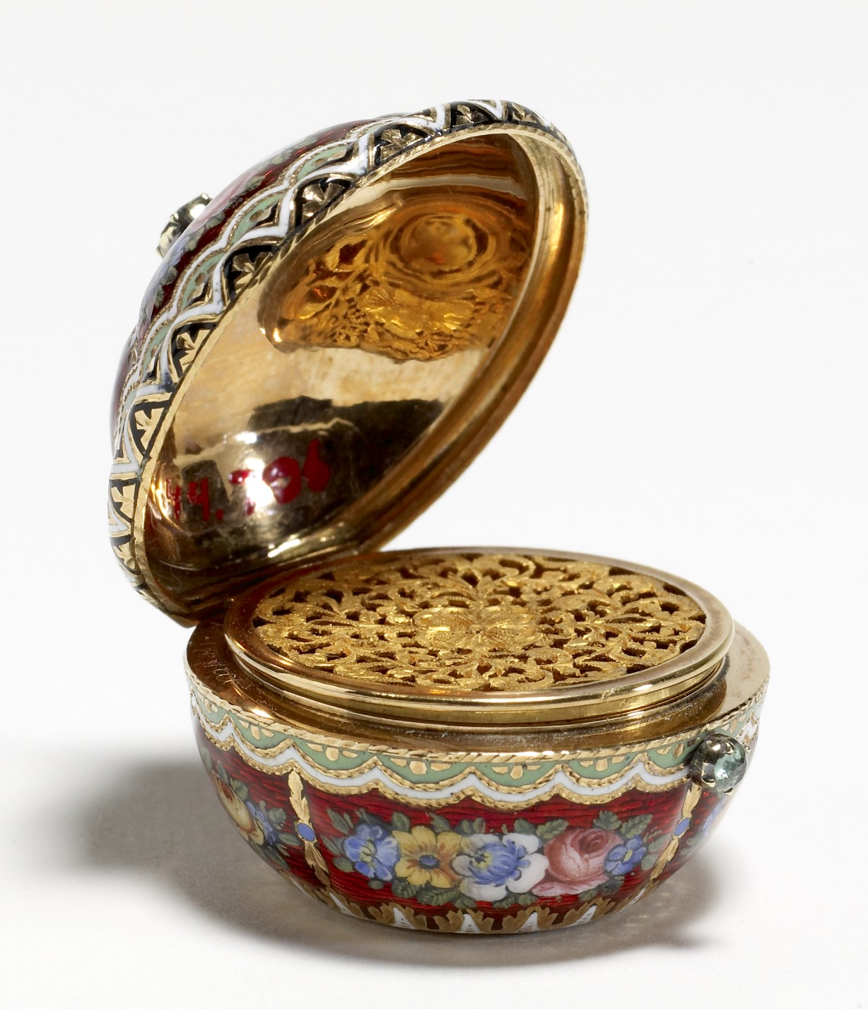 In about 1800, vinaigrettes became fashionable. They were small containers fitted with a pierced inner lid that contained sponges drenched with scent or perfume.